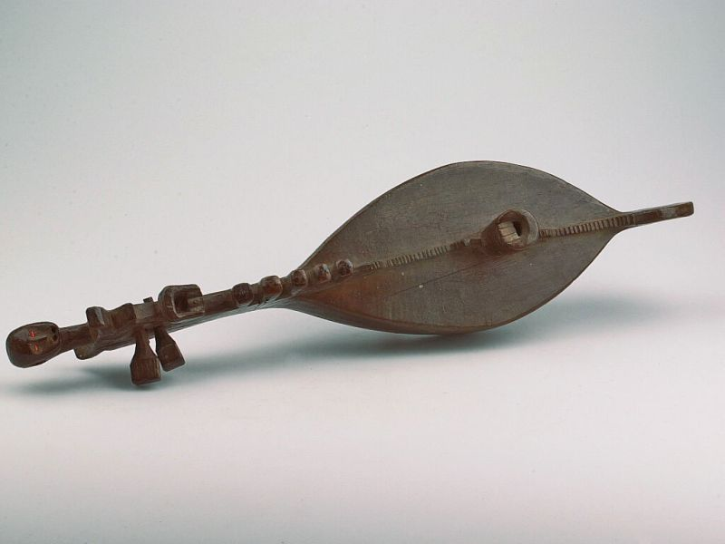 Two-stringed lute